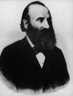 Heinrich Koebner